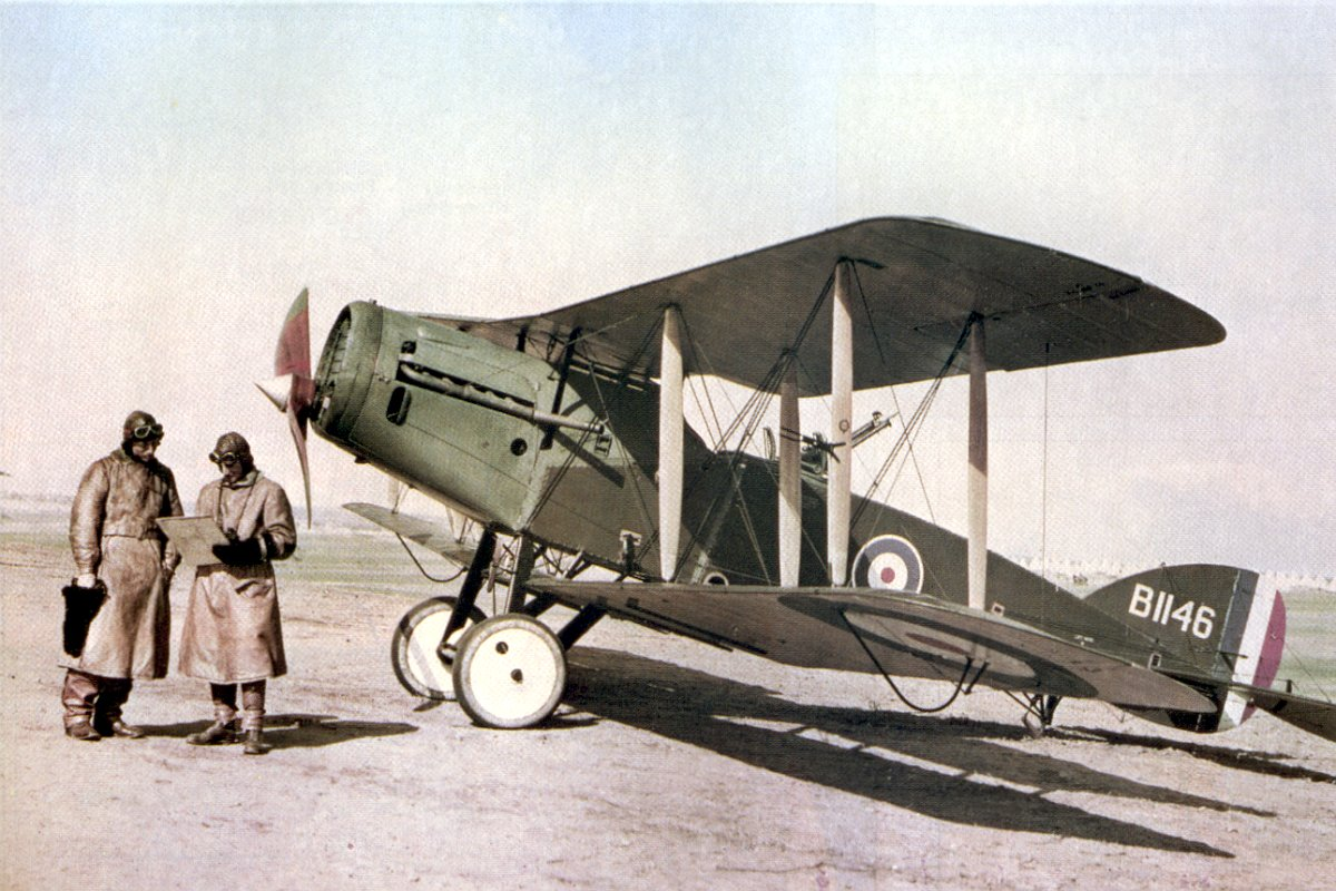 A Bristol F.2B Fighter of No. 1 Squadron, Australian Flying Corps, in Palestine, February 1918. The pilot (left) is Capt. Ross Smith who in 1919 was part of the crew that set the record for flying from England to Australia. The photo is a colour Paget Plate.